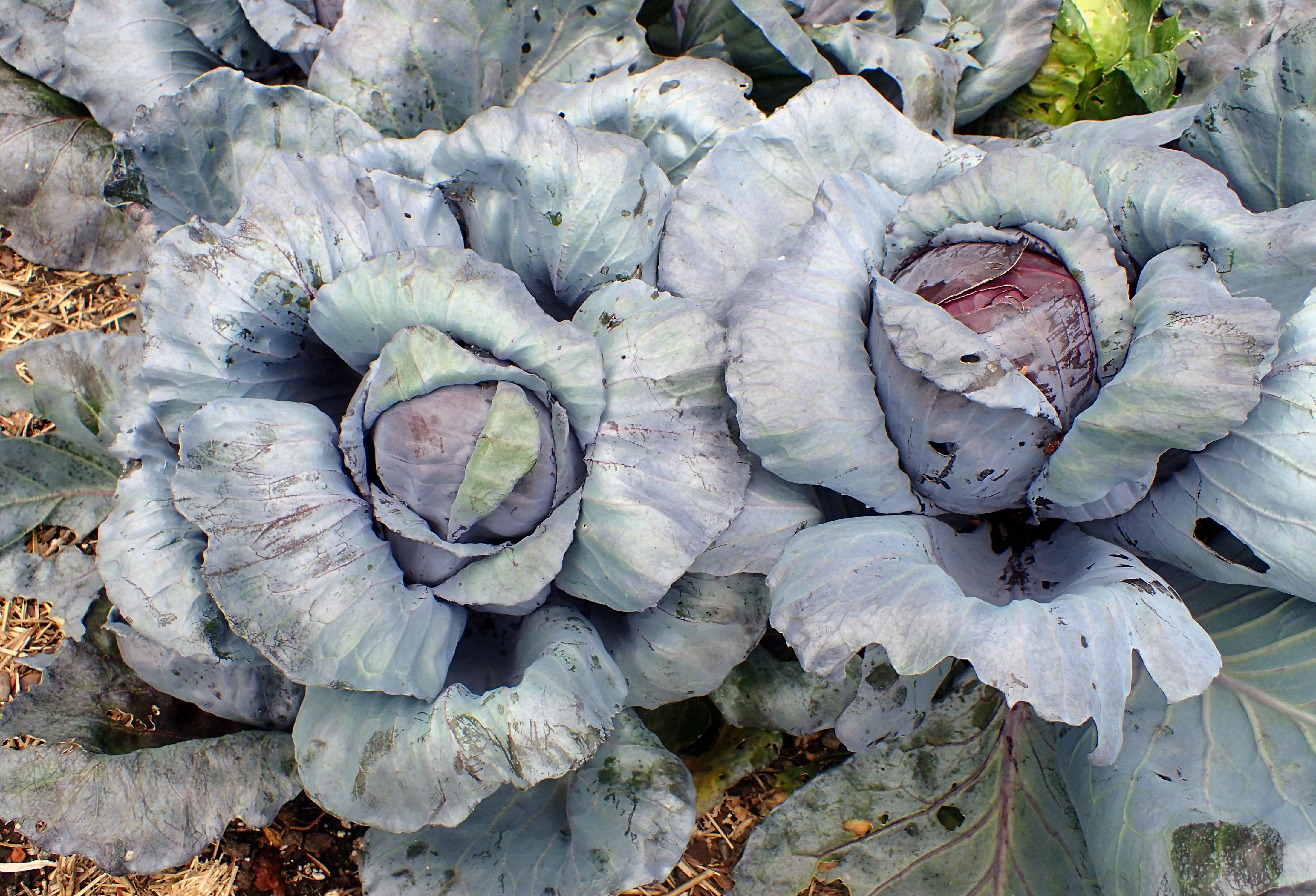 Brassica oleracea Capitata Group 'Ruby Perfection' at the New York Botanical Garden